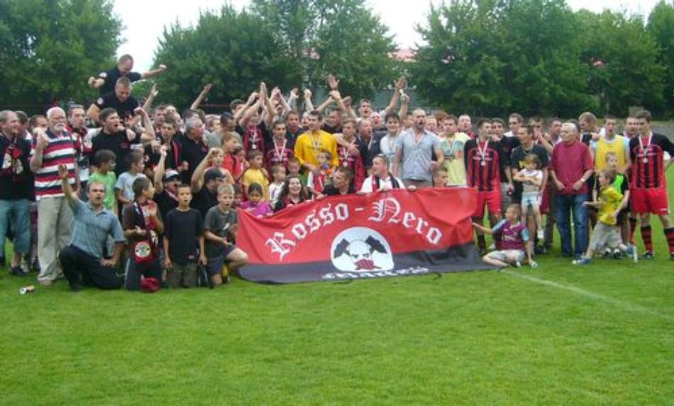 FC Dorog won silver medal in division of 2011/12.